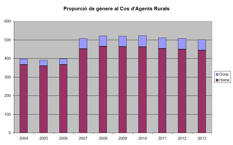 sex ratio at Cos d'Agents Rurals (catalan forest rangers)